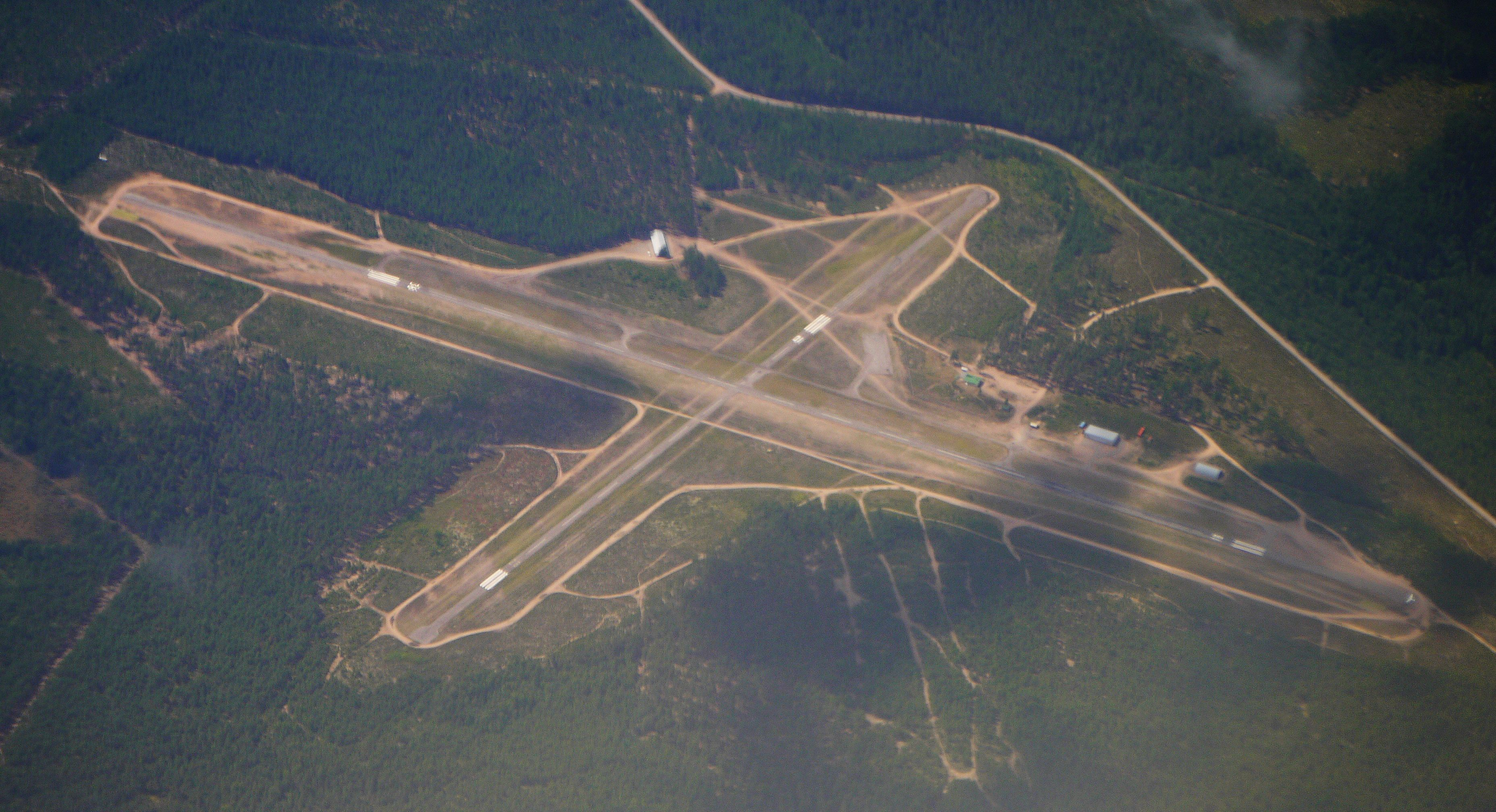 Aerial picture of Kiikala Air Field in Salo, Finland.